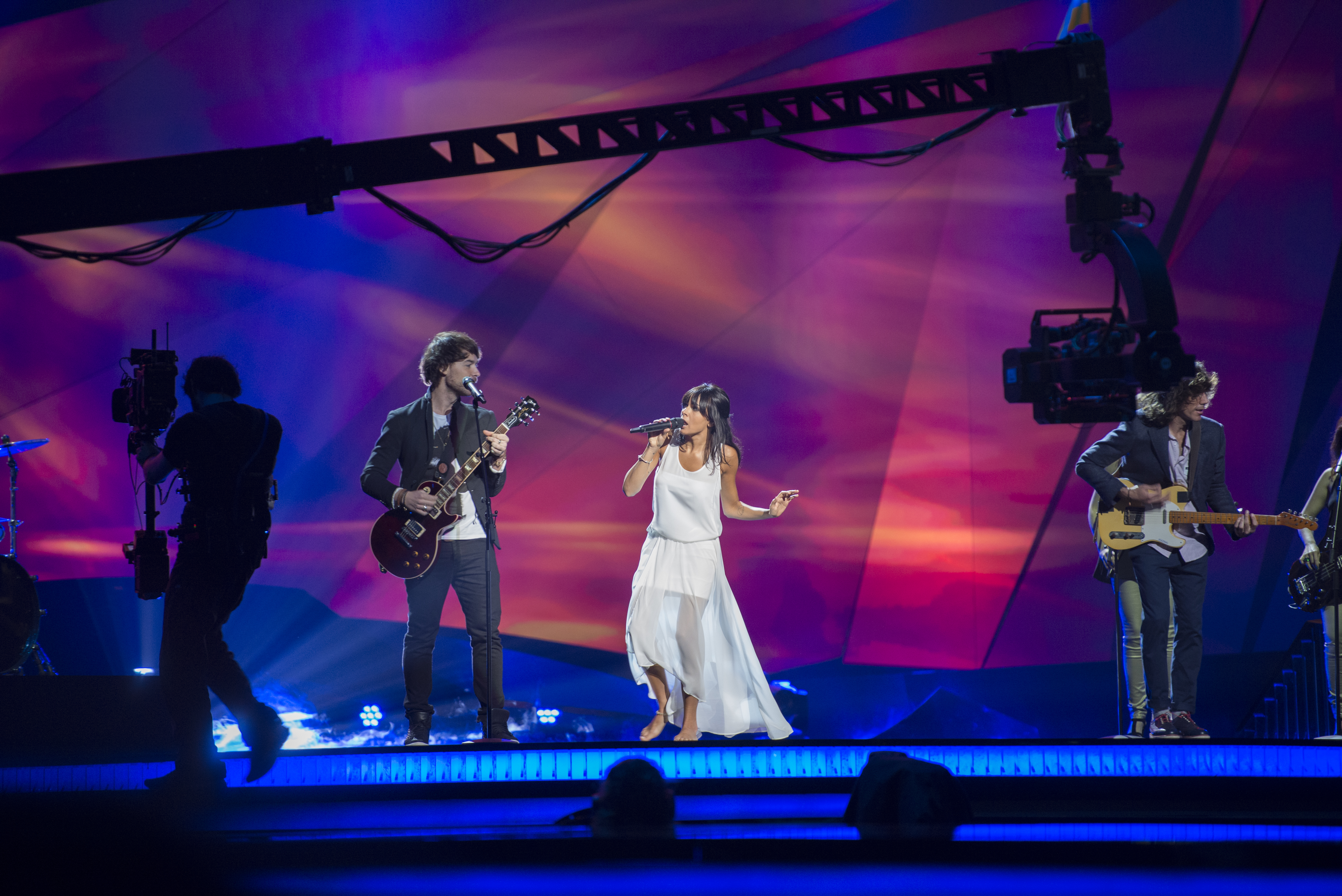 El Sueño de Morfeo representing Spain with the song "Contigo hasta el final" during the first dress rehearsal for "the Big Five" in the Eurovision Song Contest 2013 Malmö. (Help translate this text)